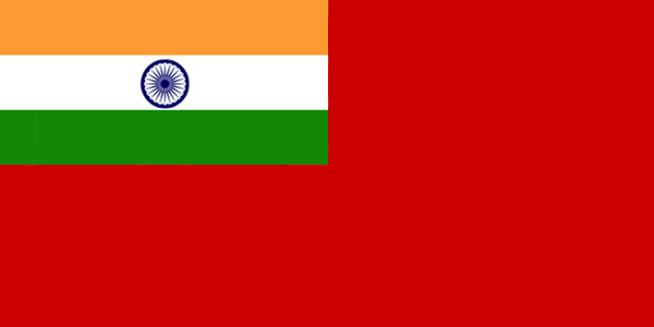 Indian Red Ensign